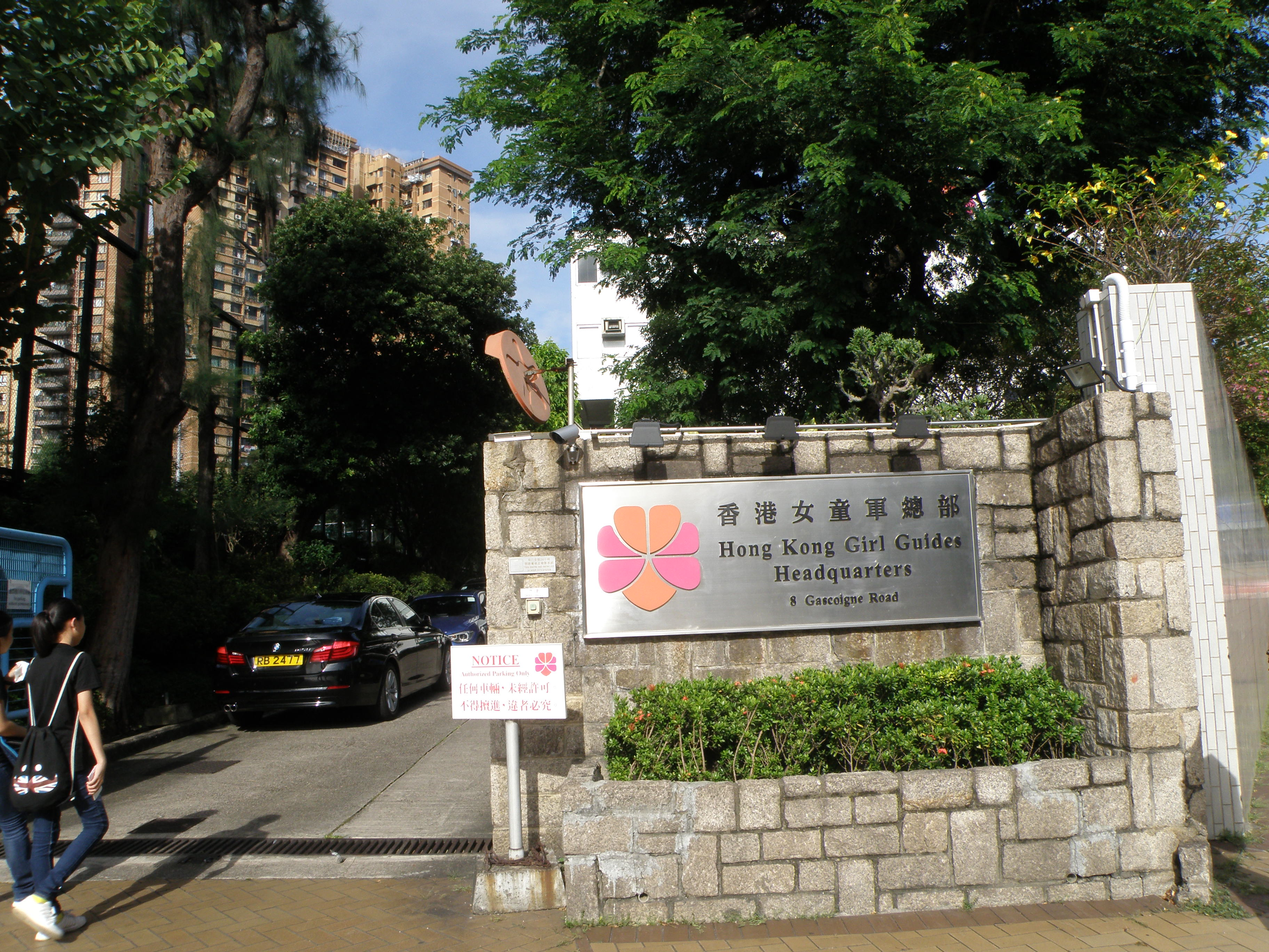 Hong Kong Girl Guides Headquarters in King's Park, Hong Kong.